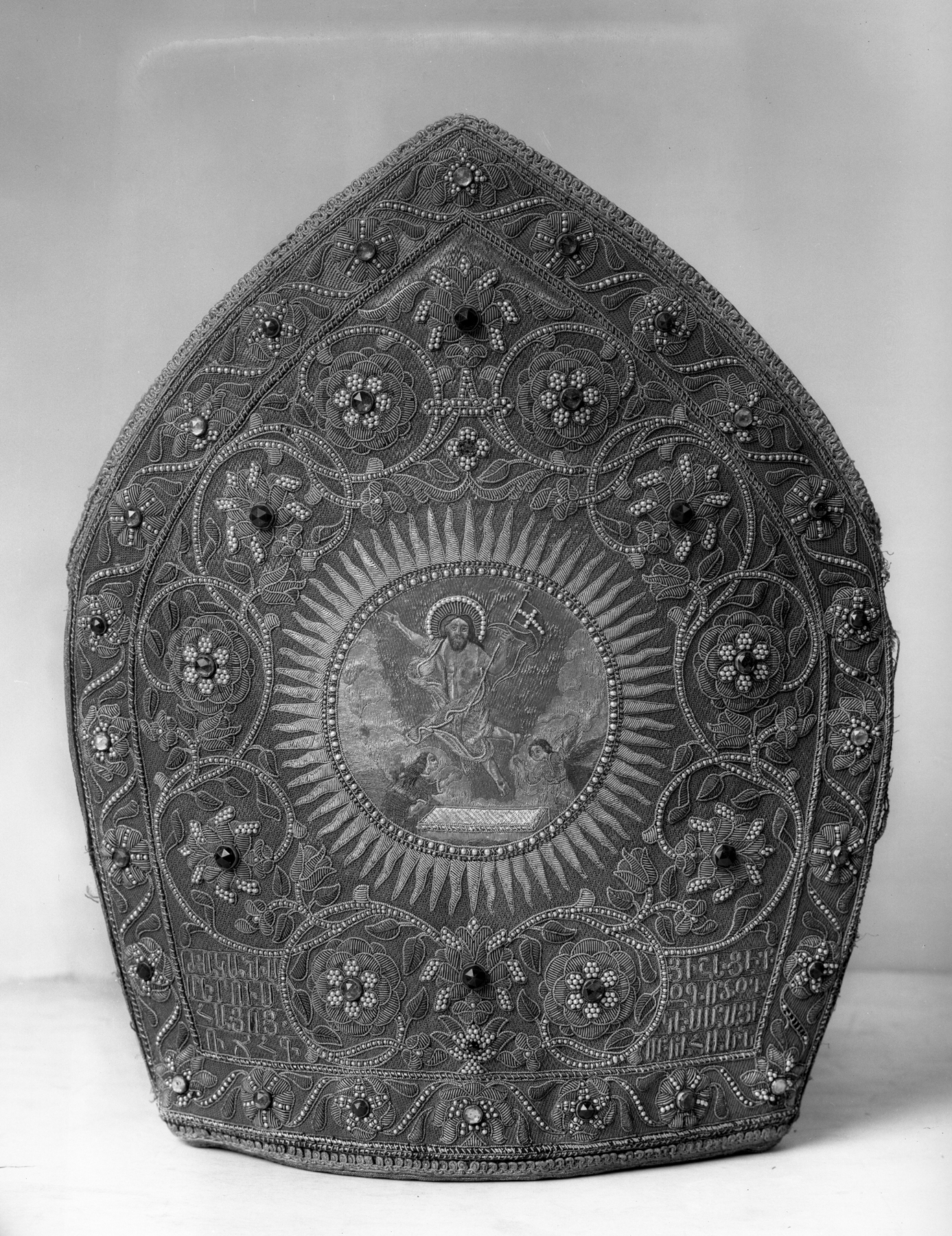 A miter is a headdress worn by bishops during the liturgy. The inscription on this one states that it was made in 1724 by Abraham of Caesarea (present-day Kayseri, Turkey) and presented to the Monastery of the Virgin Mary near Ankara by the city's Armenian bishop Moses. The depictions of Christ's Resurrection on one side and the Coronation of the Virgin on the other were inspired by western European prints.